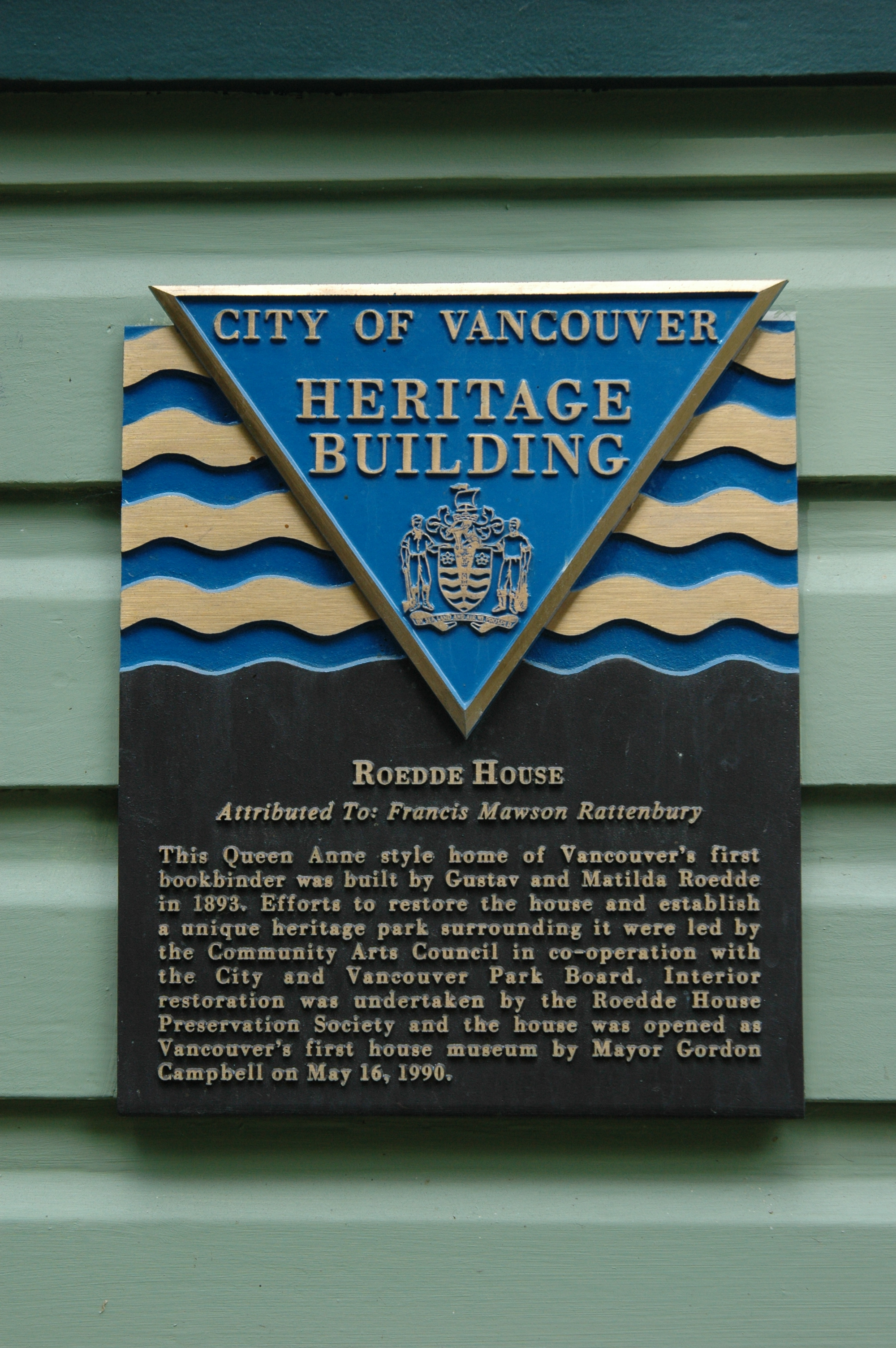 Roedde House, 1415 Barclay Street, Vancouver BC